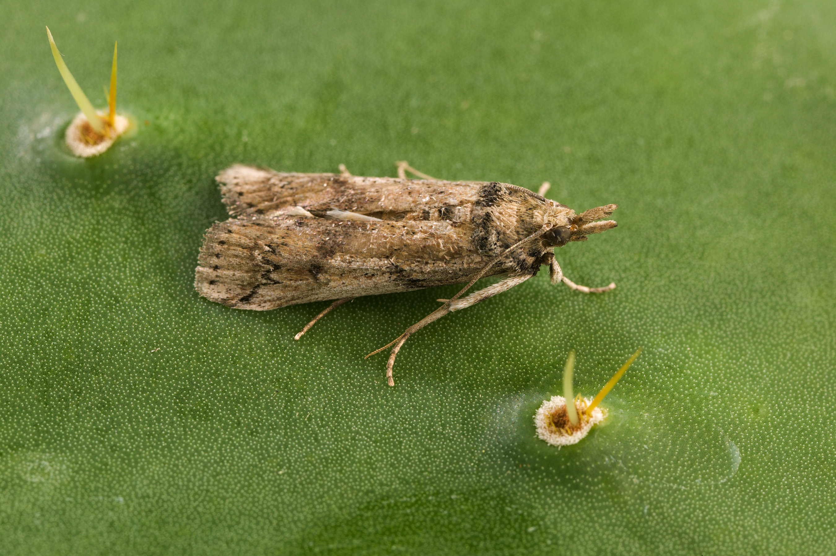 An adult female of the invasive cactus moth resting on a prickly pear cactus pad.